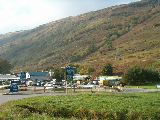 The Loch Fyne Oyster Bar at Cairndow in Scotland. This was the precursor of the chain of Loch Fyne restaurants that now exist throughout the UK. For more information see the Wikipedia article Loch Fyne Oysters and Restaurants.